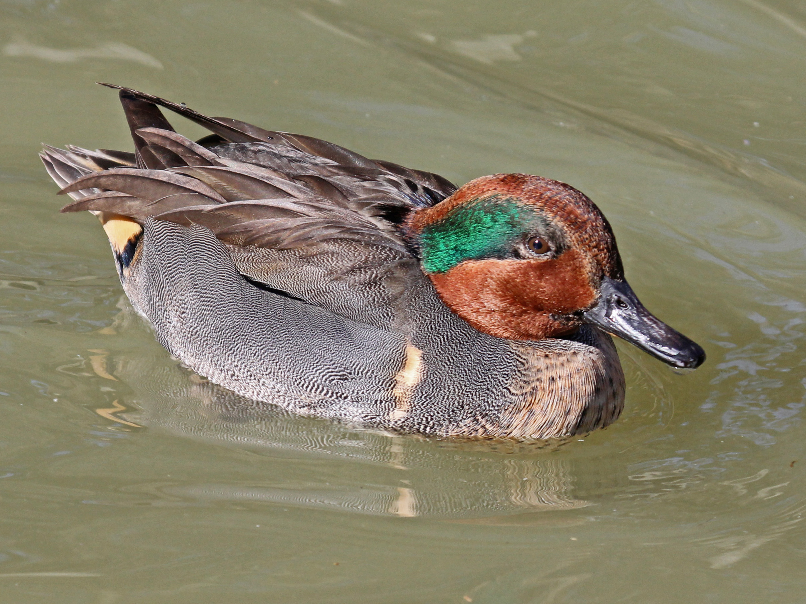 Male Green-winged Teal (Anas carolinensis) - North Carolina